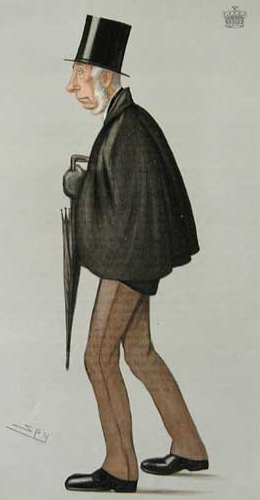 Caricature of Frederick Ponsonby, 6th Earl of Bessborough. Caption read "Fred".